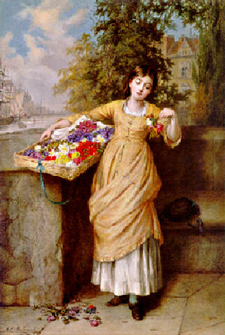 "Fading flowers" - Oil on Canvas - 55 x 38 cm.